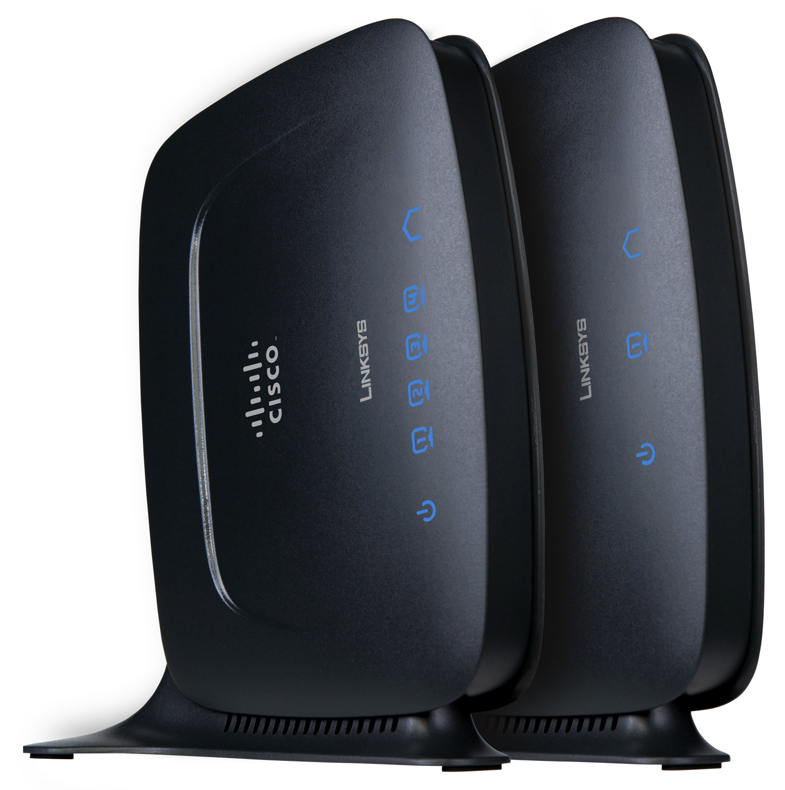 Acquired from Linksys by Cisco website